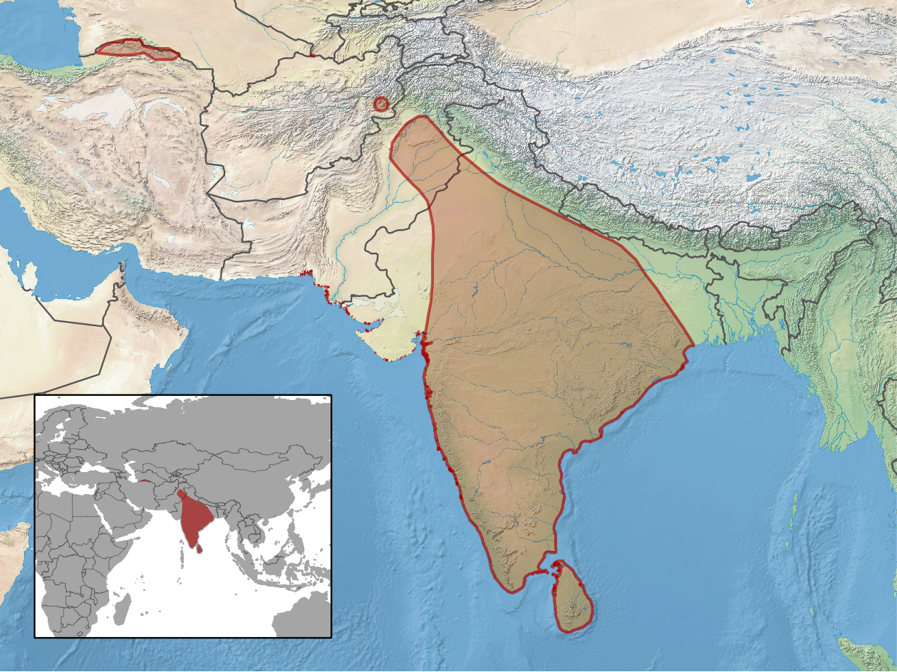 geographic distribution of Oligodon taeniolatus